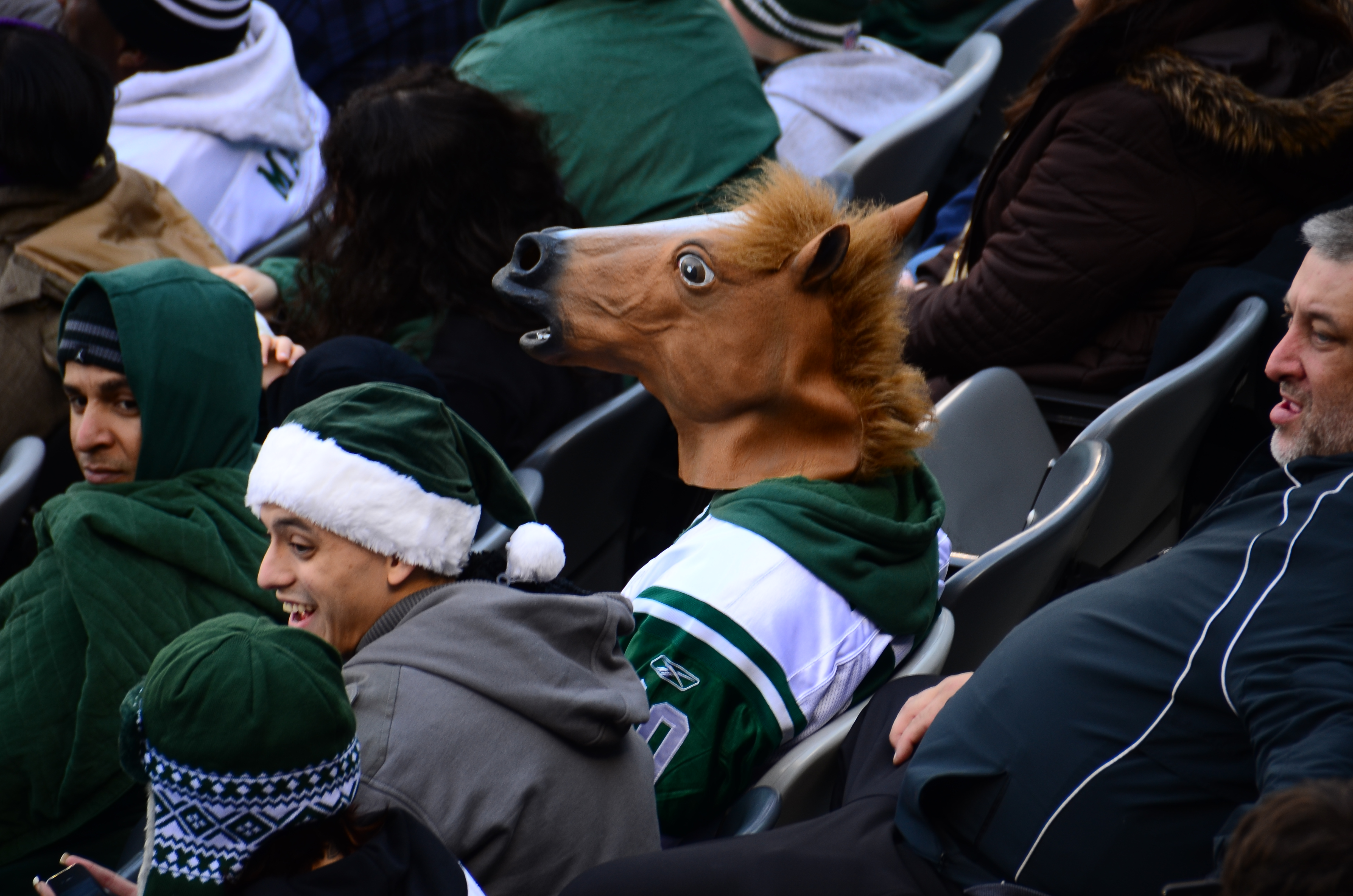 Person wearing a horse head mask at an outdoor event